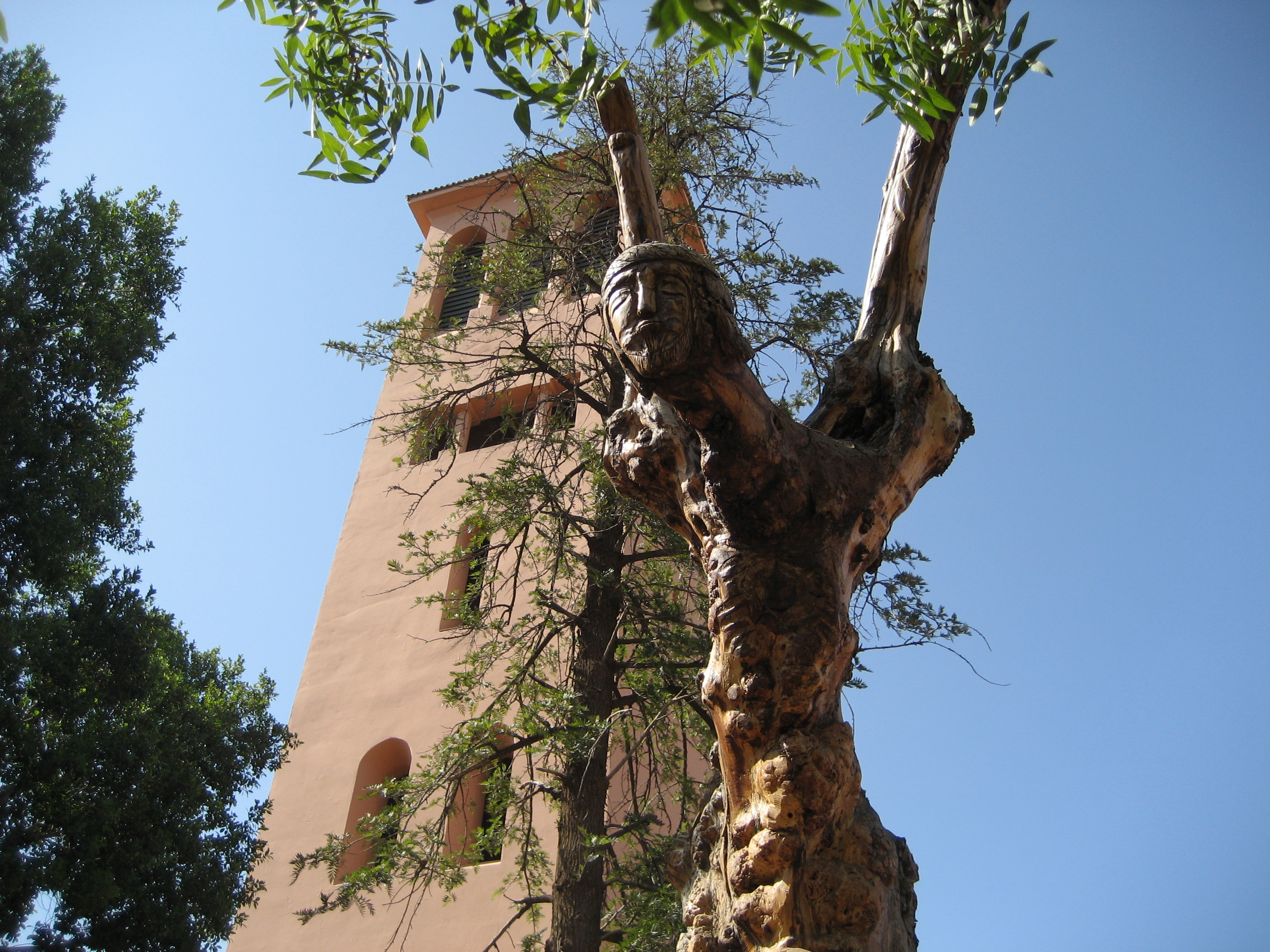 Head of Jesus, carved in a tree. Catholic church in Marrakech (Eglise des Saints Martyrs) (Morocco)